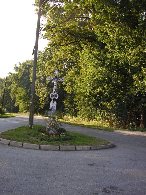 Crucifix in Repaš